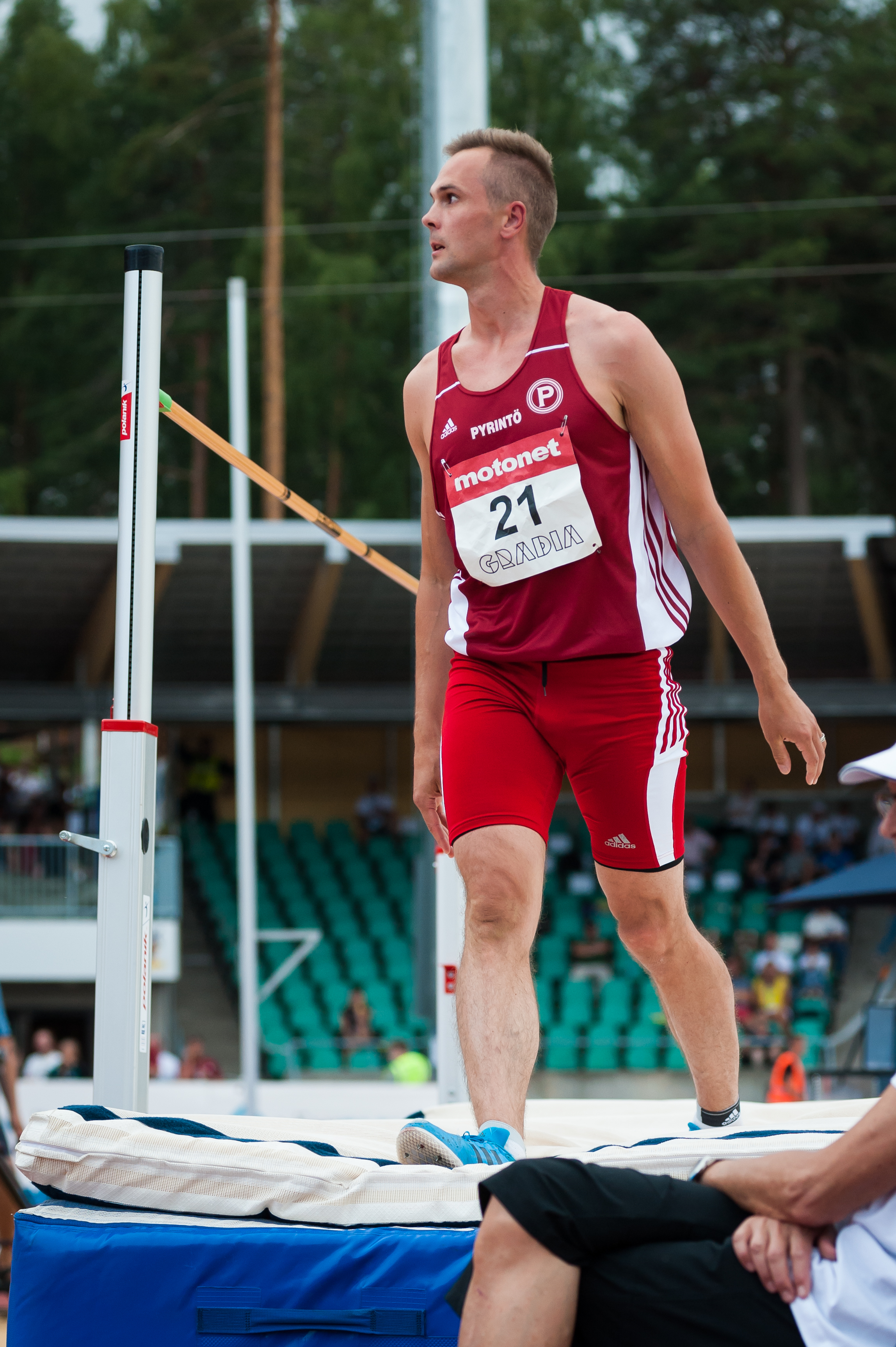 Men's high jump competition at the 2018 Kalevan Kisat, the Finnish championships in athletics, in Jyväskylä, Finland.